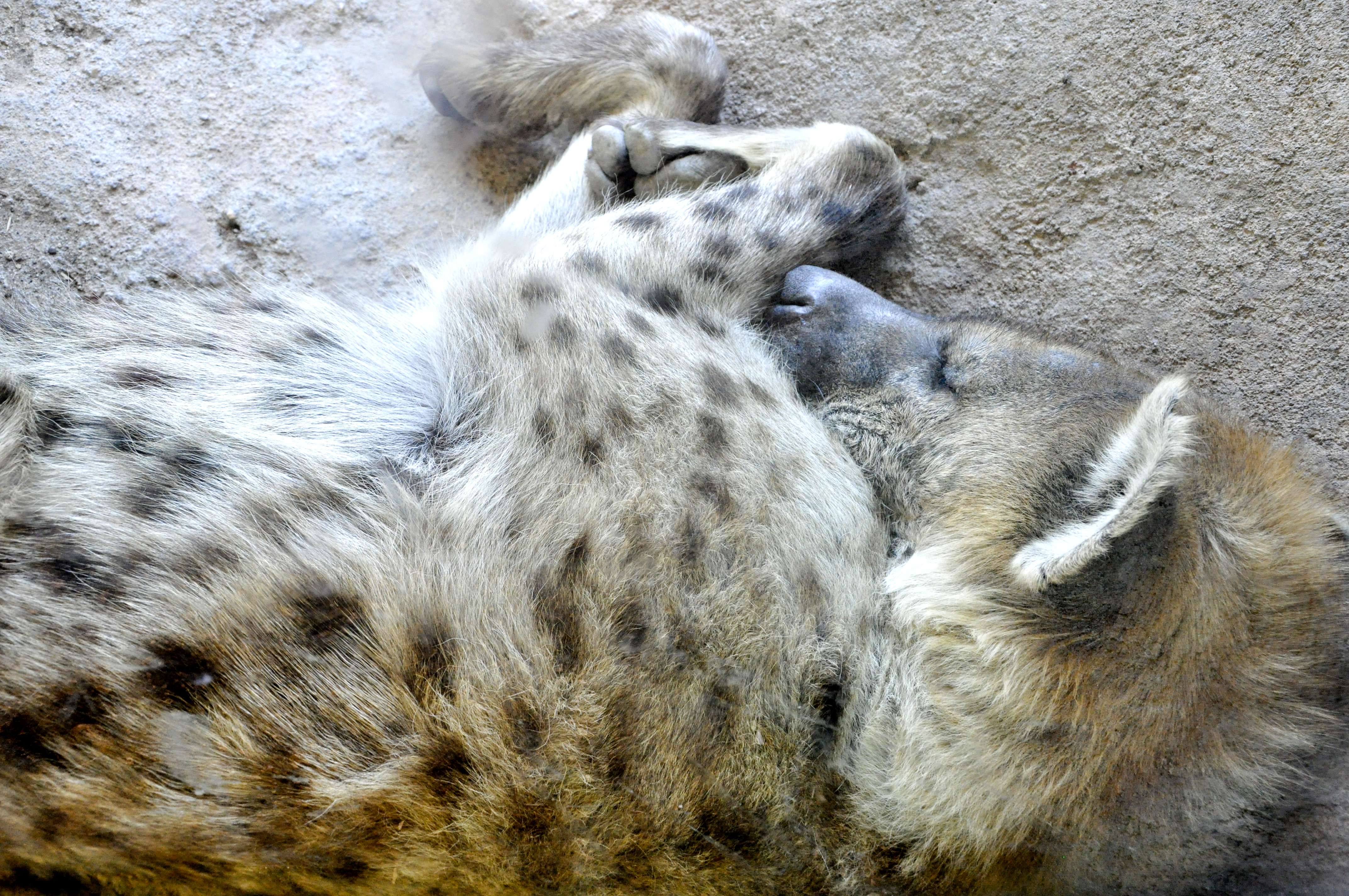 DENVER – A hyena sleeps soundly against the glass wall of its enclosure at the Denver Zoo July 21, 2012. The hyena lives in a part of the zoo known as Predator Ridge; a $16.5 million exhibit designed to recreate a portion of Samburu National Reserve in Kenya, according to the official website.